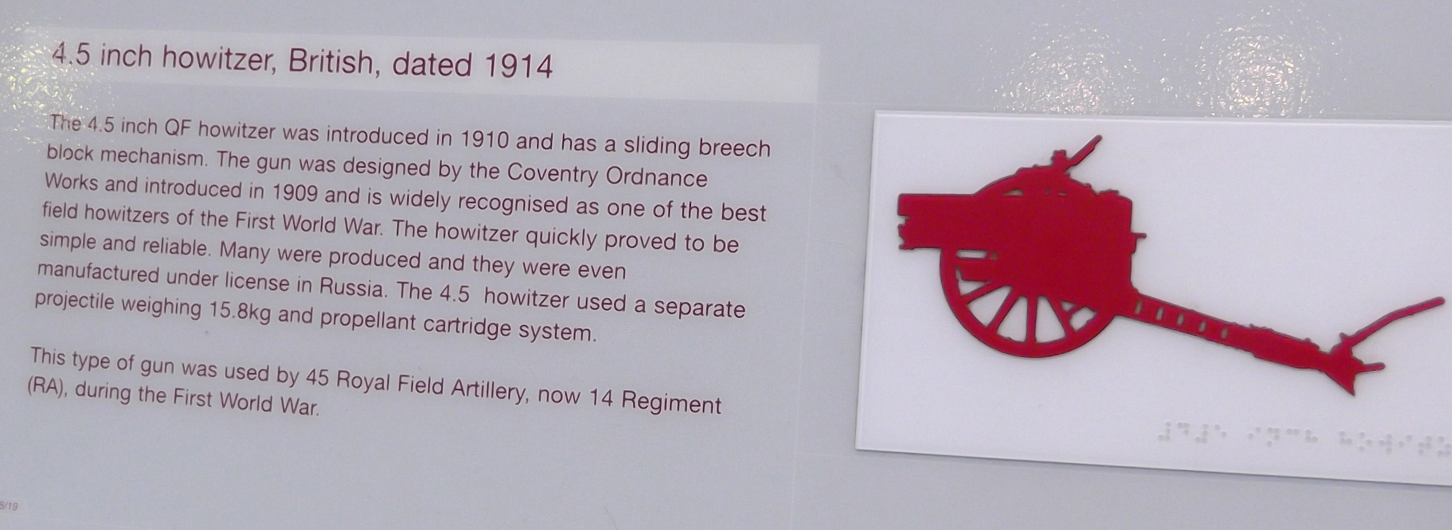 Royal Artillery Museum Woolwich London 182